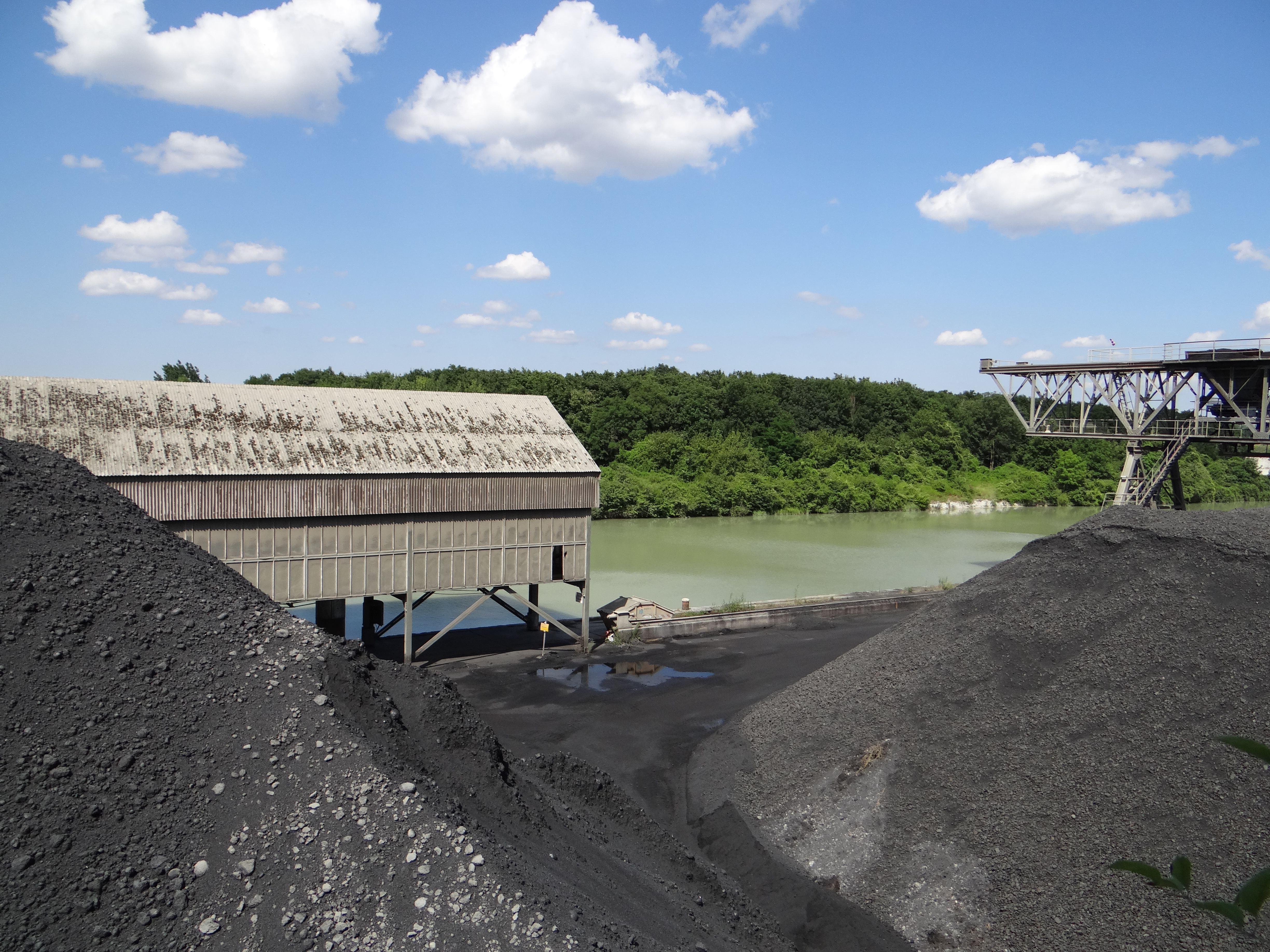 Hannover, Germany.